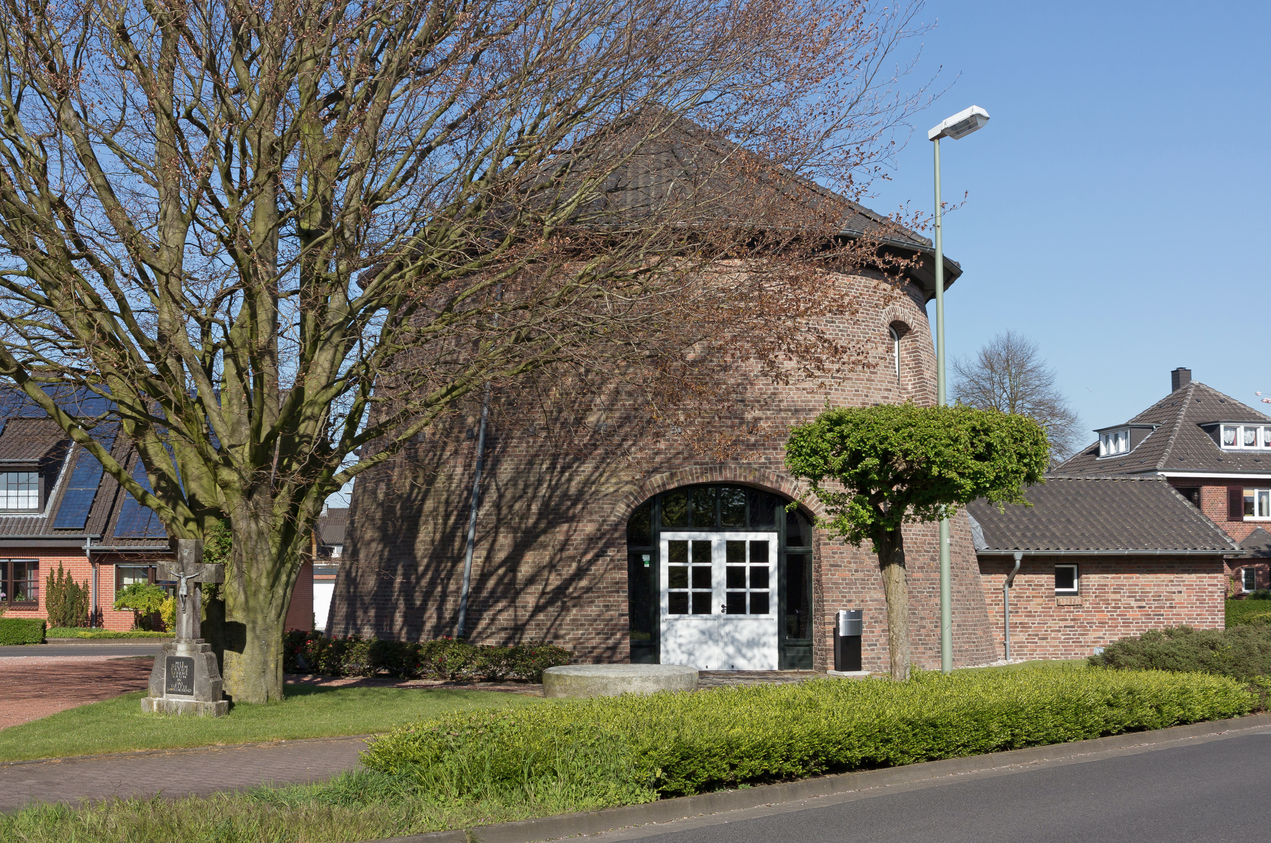 Kessel, mill bodyThis is a photograph of an architectural monument., no. 2